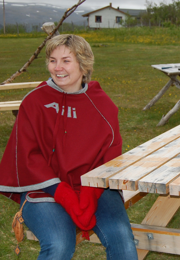 Aili Keskitalo of Norske Samers Riksforbund (NSR) wearing a Sami luhkka.